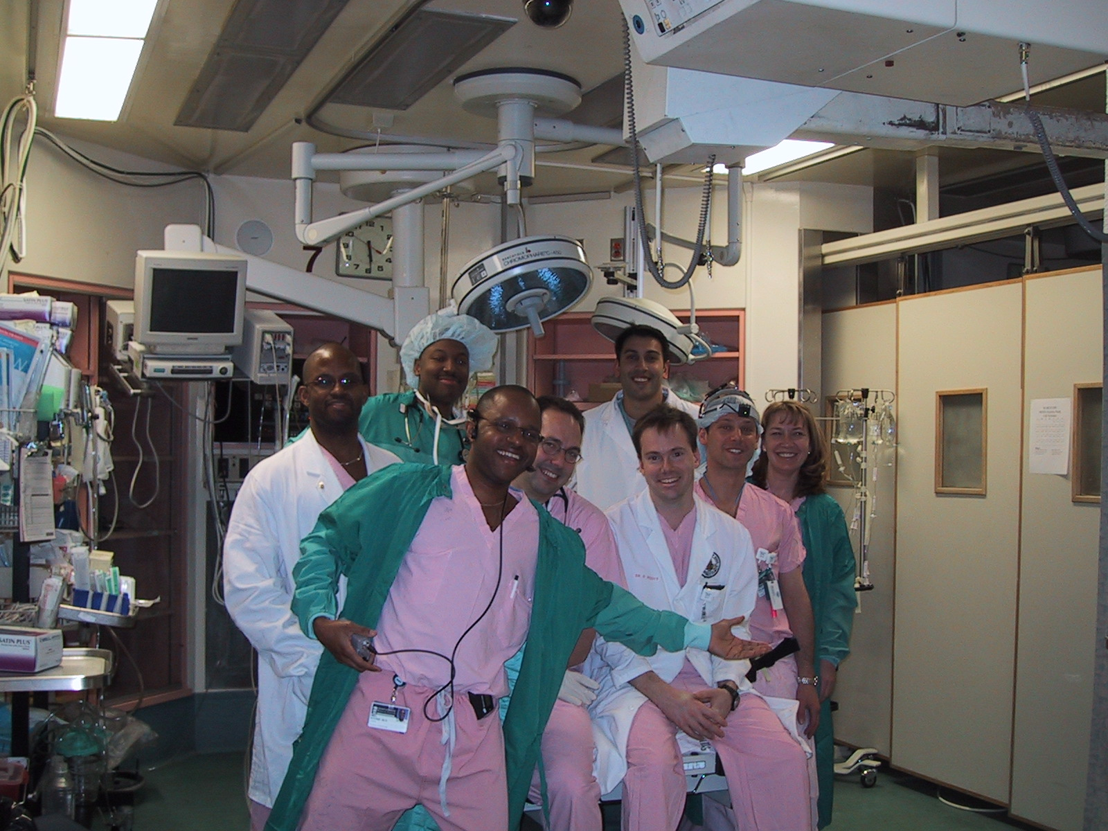 BALTIMORE, MARYLAND - Photograph of Shock Trauma Resident Team, University MD, Baltimore, March 27, 2001. Author: Rodney Grolman, M.D.